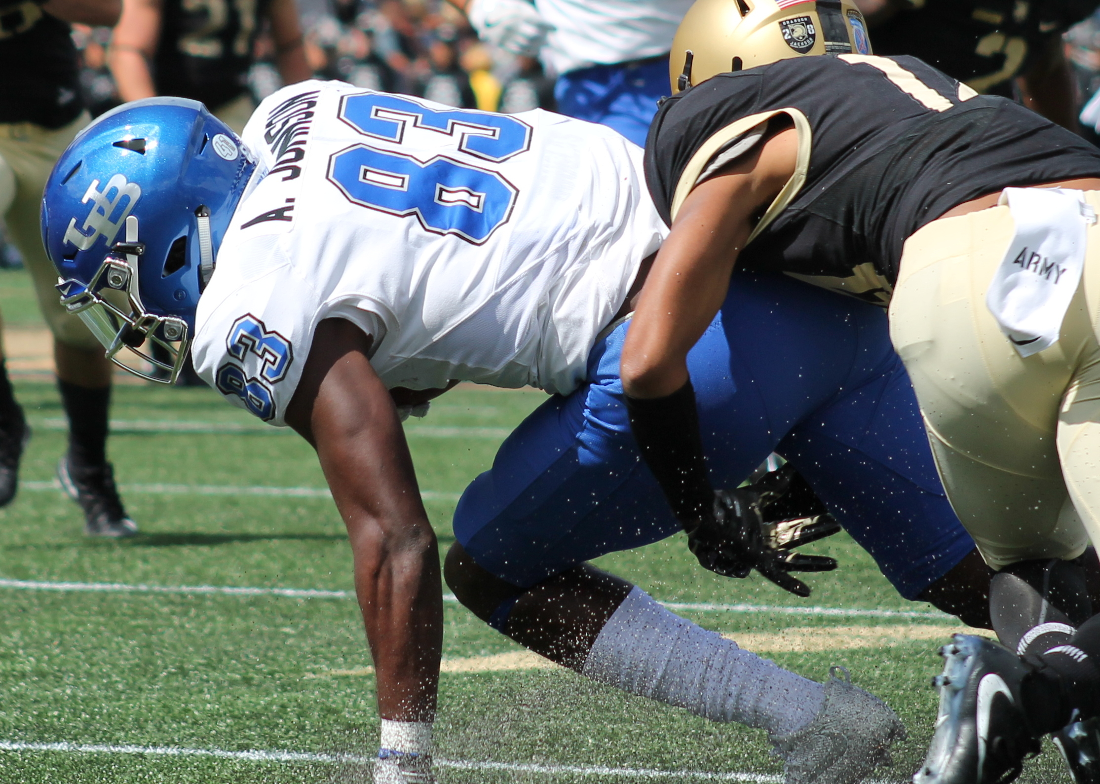 Wide receiver Anthony Johnson of the Buffalo Bulls is tackled by an Army Black Knights defender during a 2017 game at Michie Stadium in West Point.